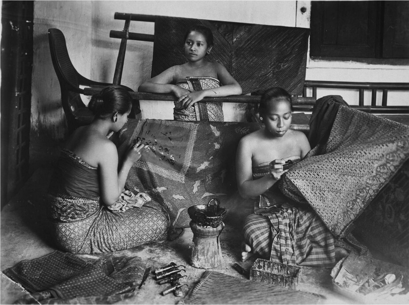 Batik makers at a batik workshop, Jawa